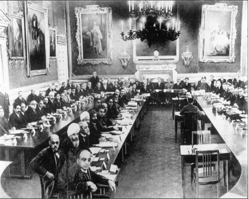 The First Round Table Conference was inaugurated by King George-V on Nov.12, 1930 in London, Dr Babasaheb Ambedkar, Delegate, seen in the left row (9th)